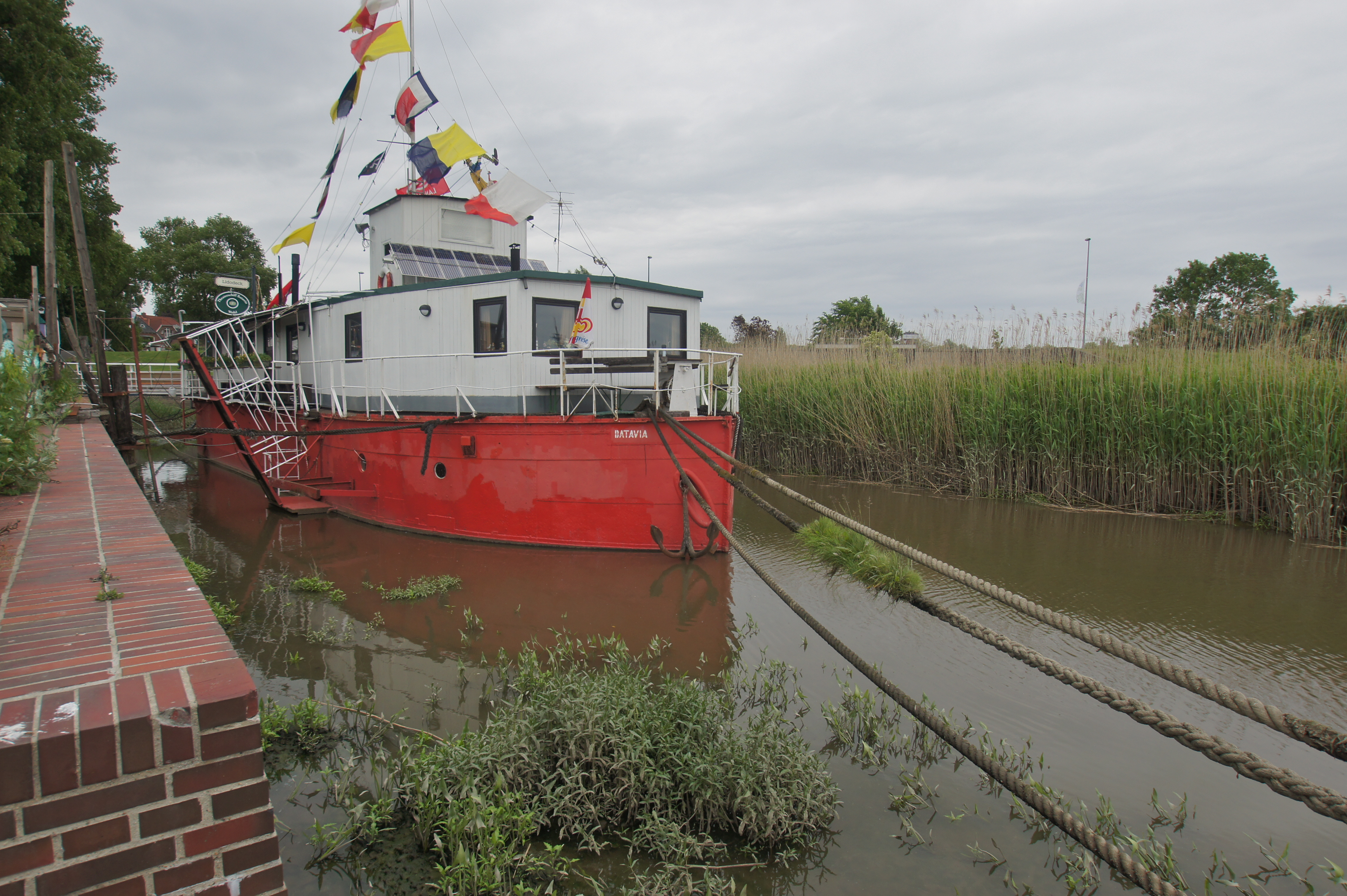 Wedel, Germany: Theater and pub Batavia on the Wedeler Au